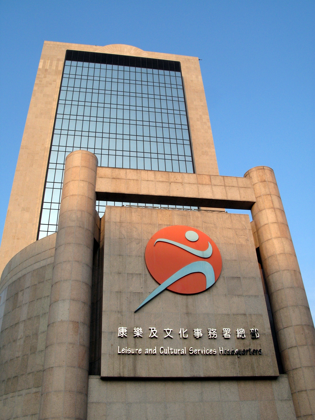 Leisure and Cultural Services Department Headquarters